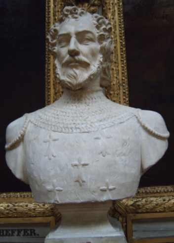 Charles I, Duke of Brittany, battles gallery, Versailles castle, France